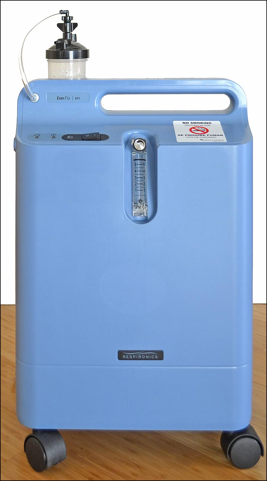 Philips Respironics Oxygen Concentrator. Photo taken by me on April 24th, 2012.